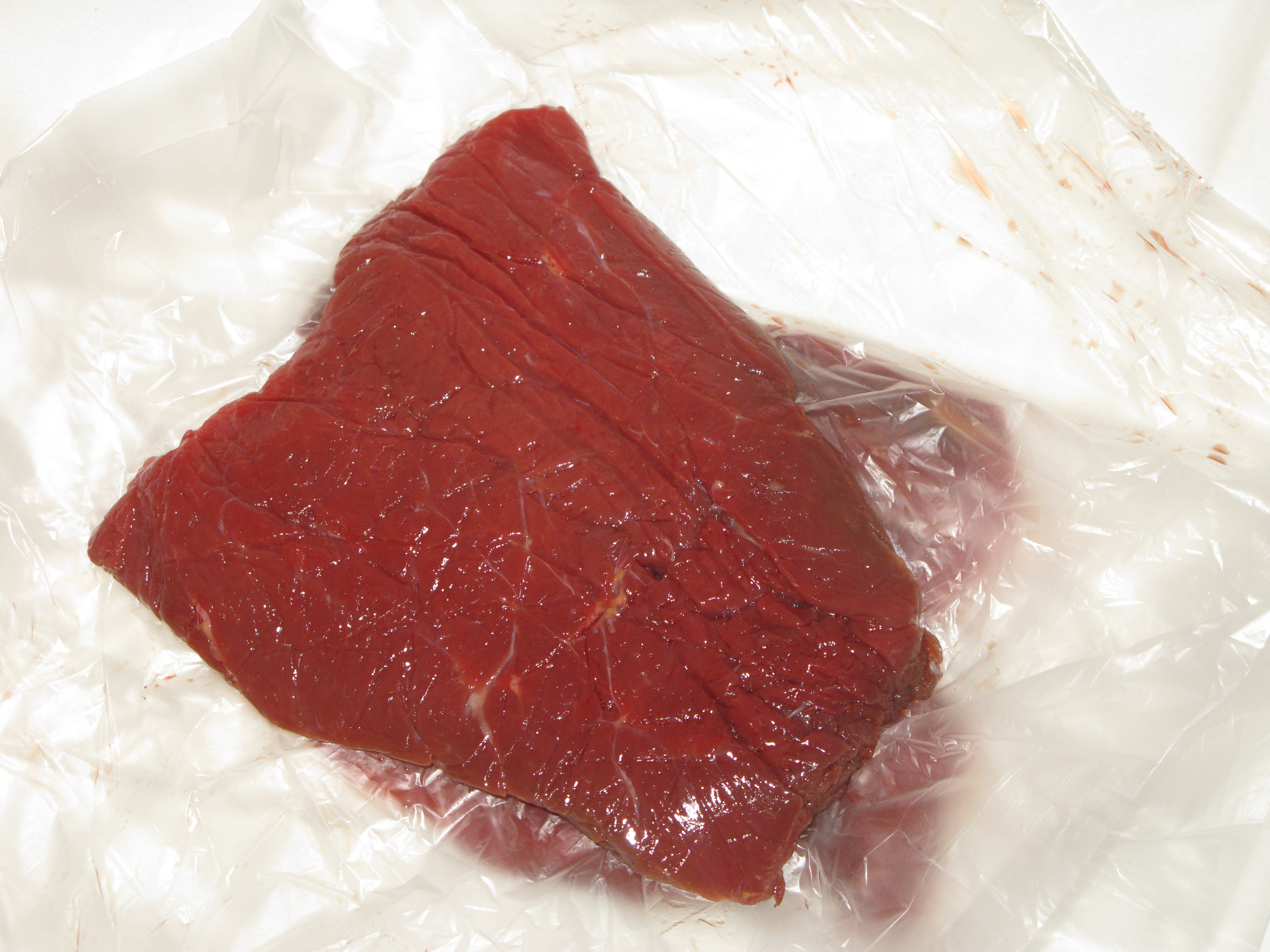 Horse sirloin (contre-filet), in France.